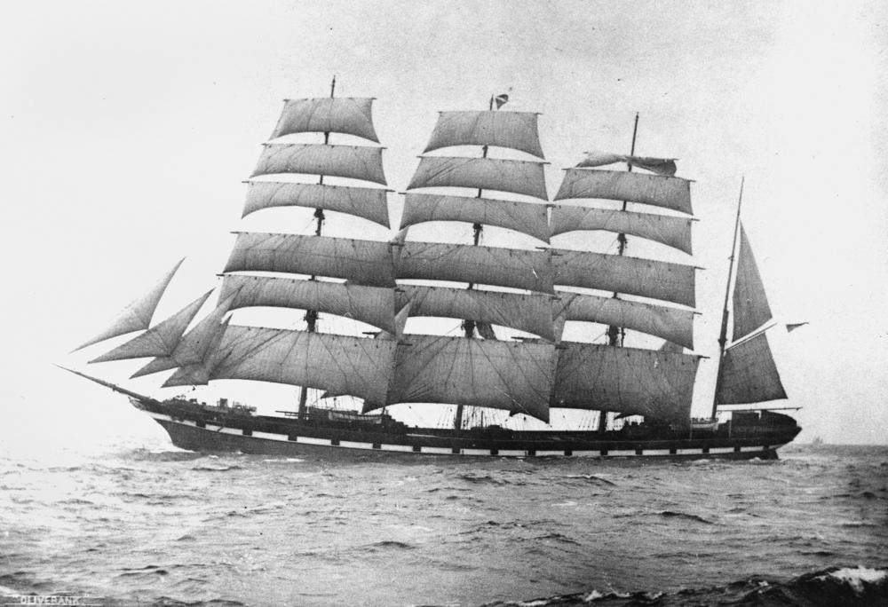 Olivebank (ship)